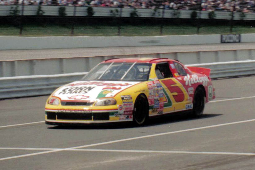 Terry Labonte, 1996 Winston Cup Champion, was always one of my favorites. Posted 1 1997 win.